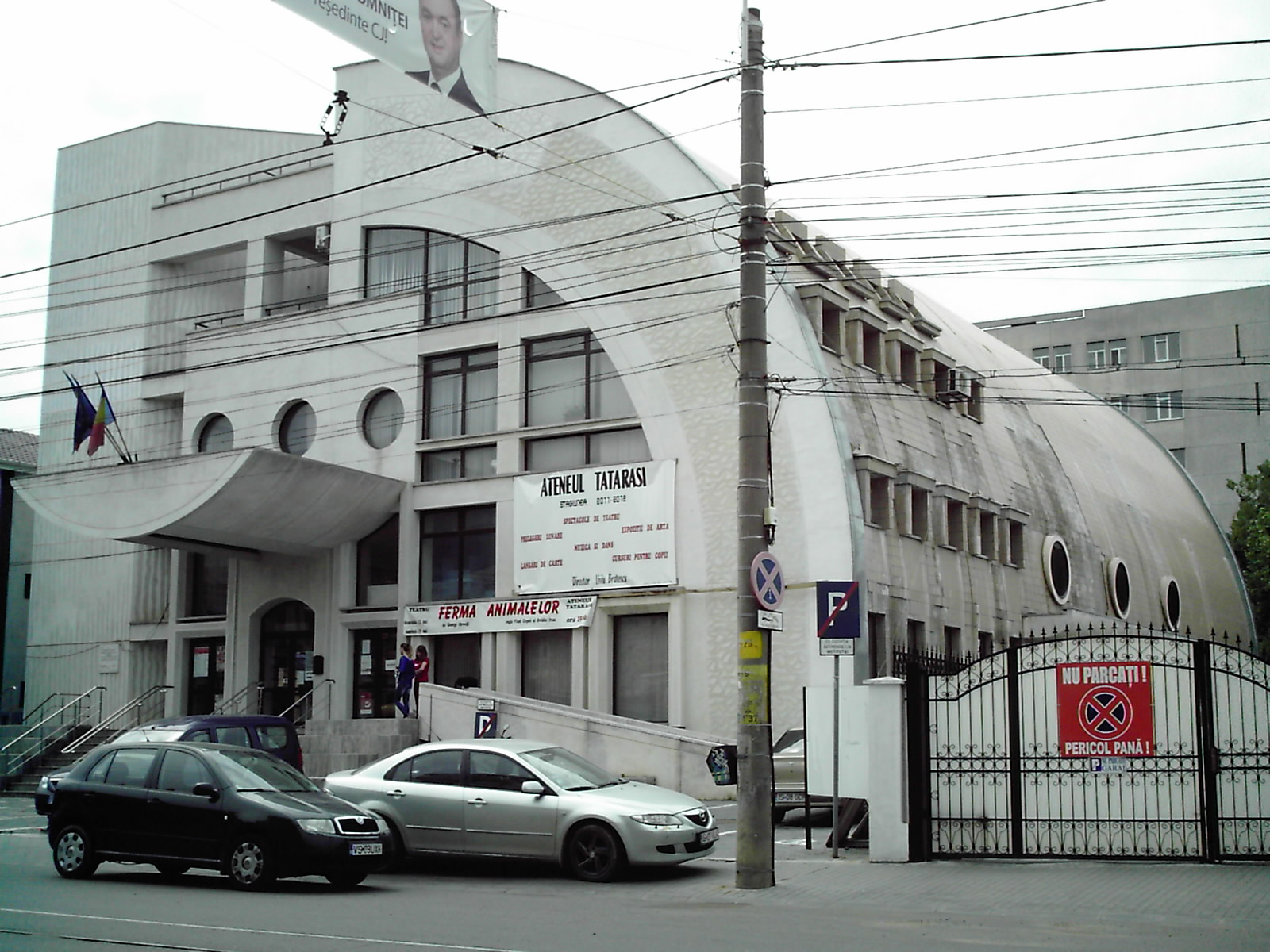 Tătăraşi Athenaeum, is a public cultural institution in Iaşi, Romania